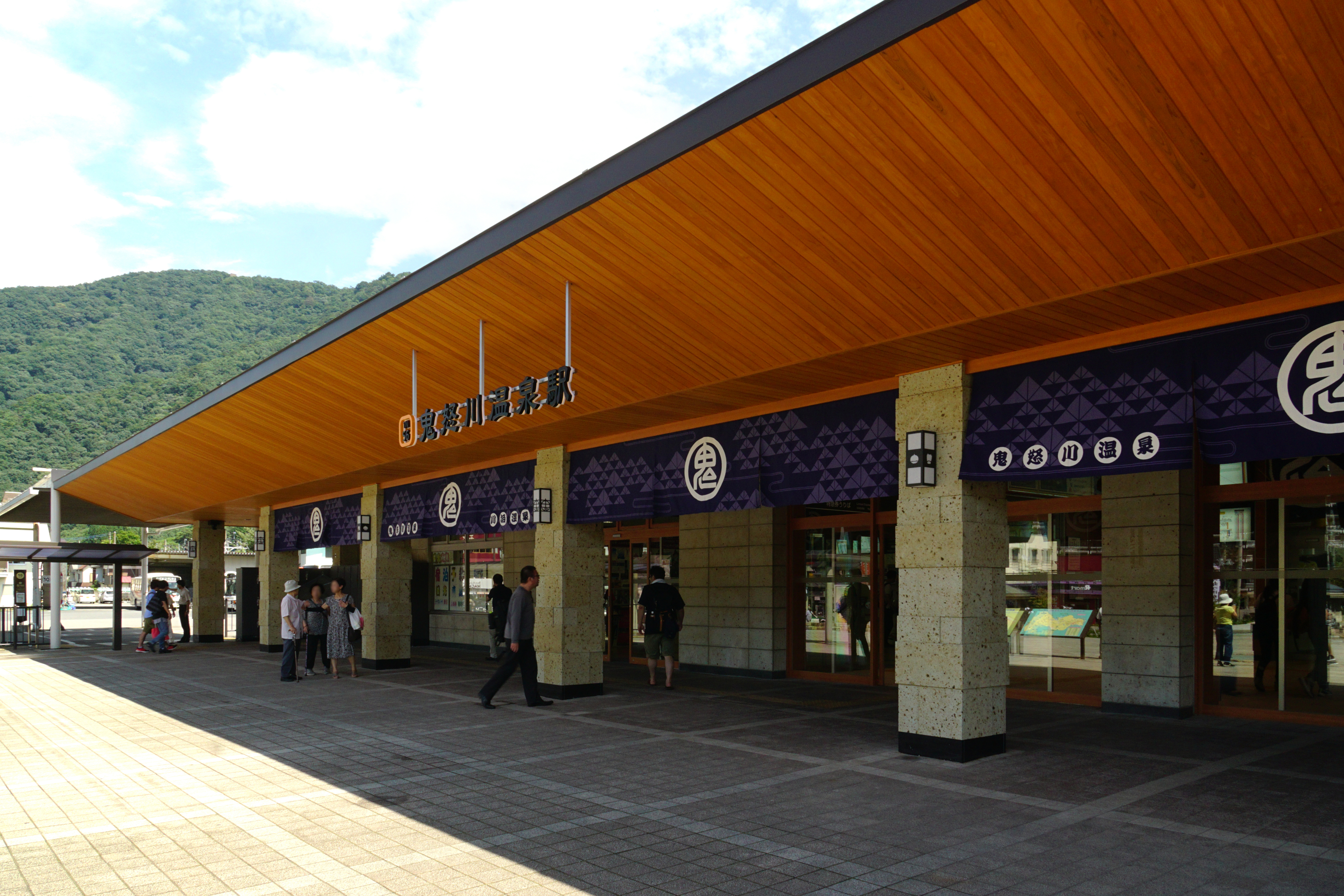 Kinugawa-Onsen Station in Nikko, Tochigi prefecture, Japan